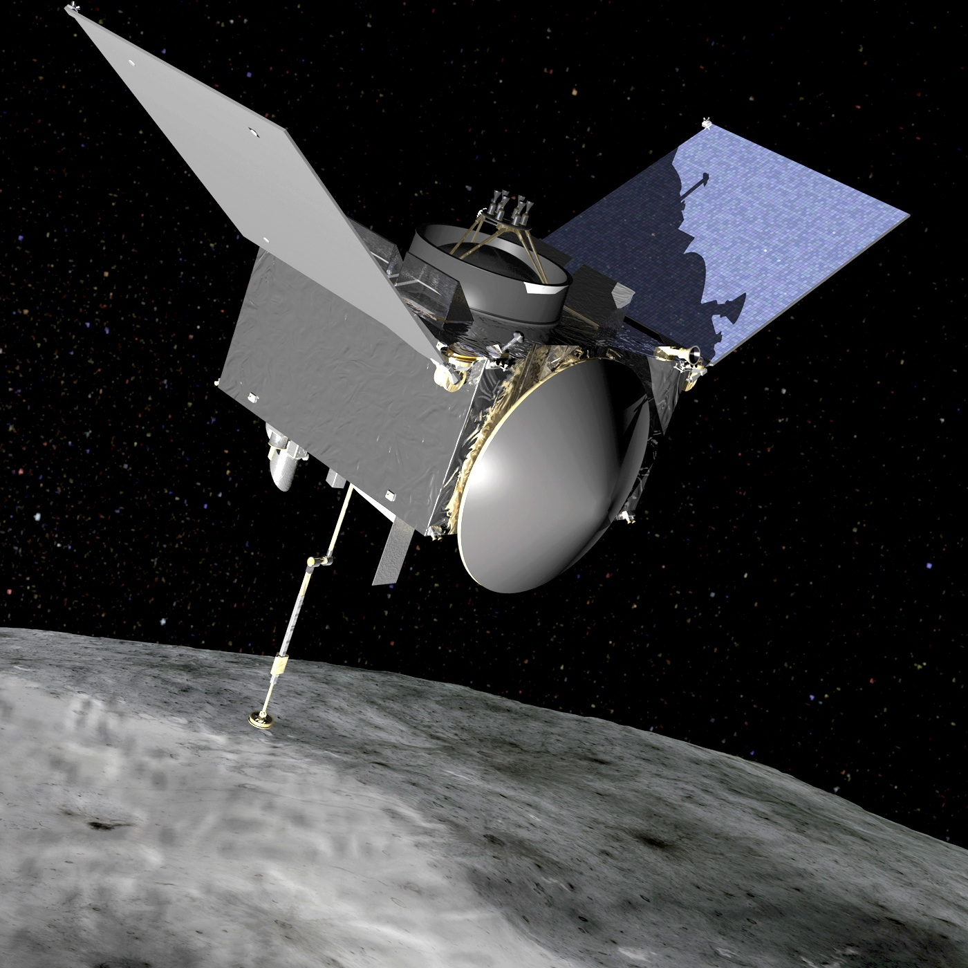 Artist’s conception of the OSIRIS-REx spacecraft at Bennu asteroid